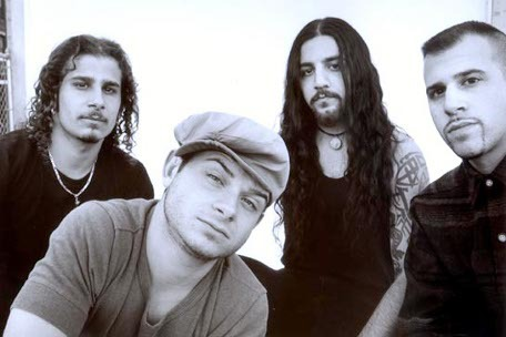 The band "Life of Agony". Photo taken in 1995.